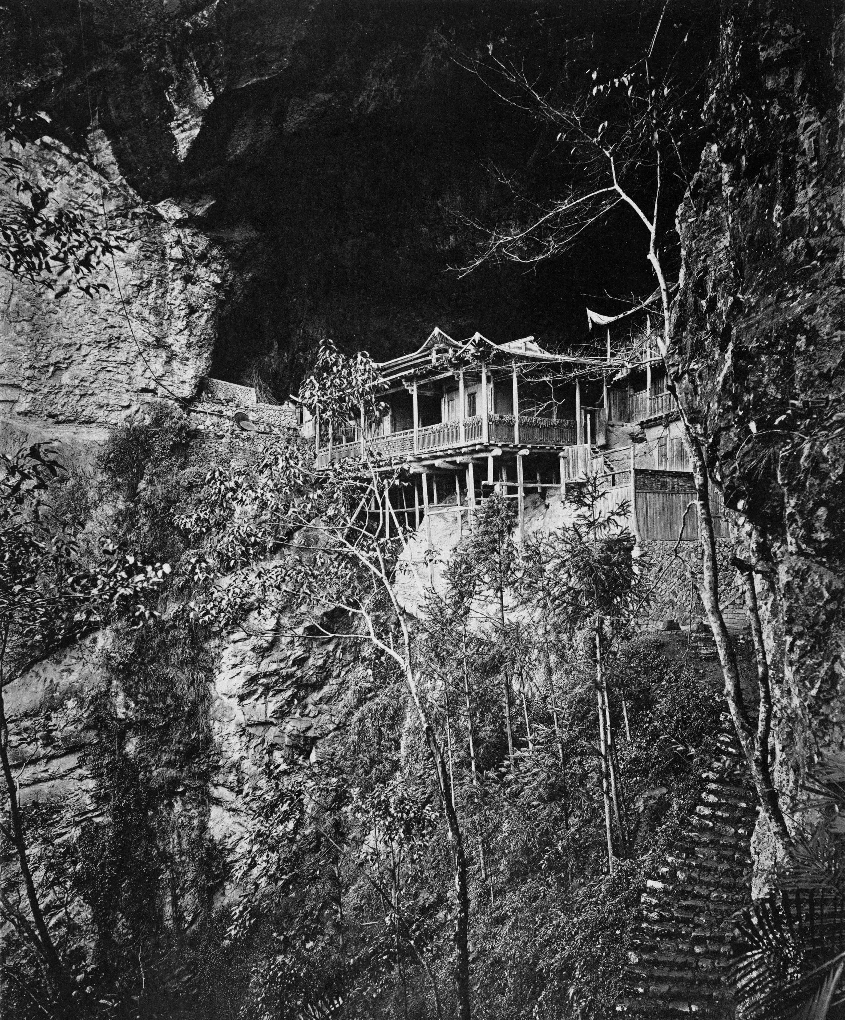 Photograph by John Thomson. See detail on the Wikisource link below.